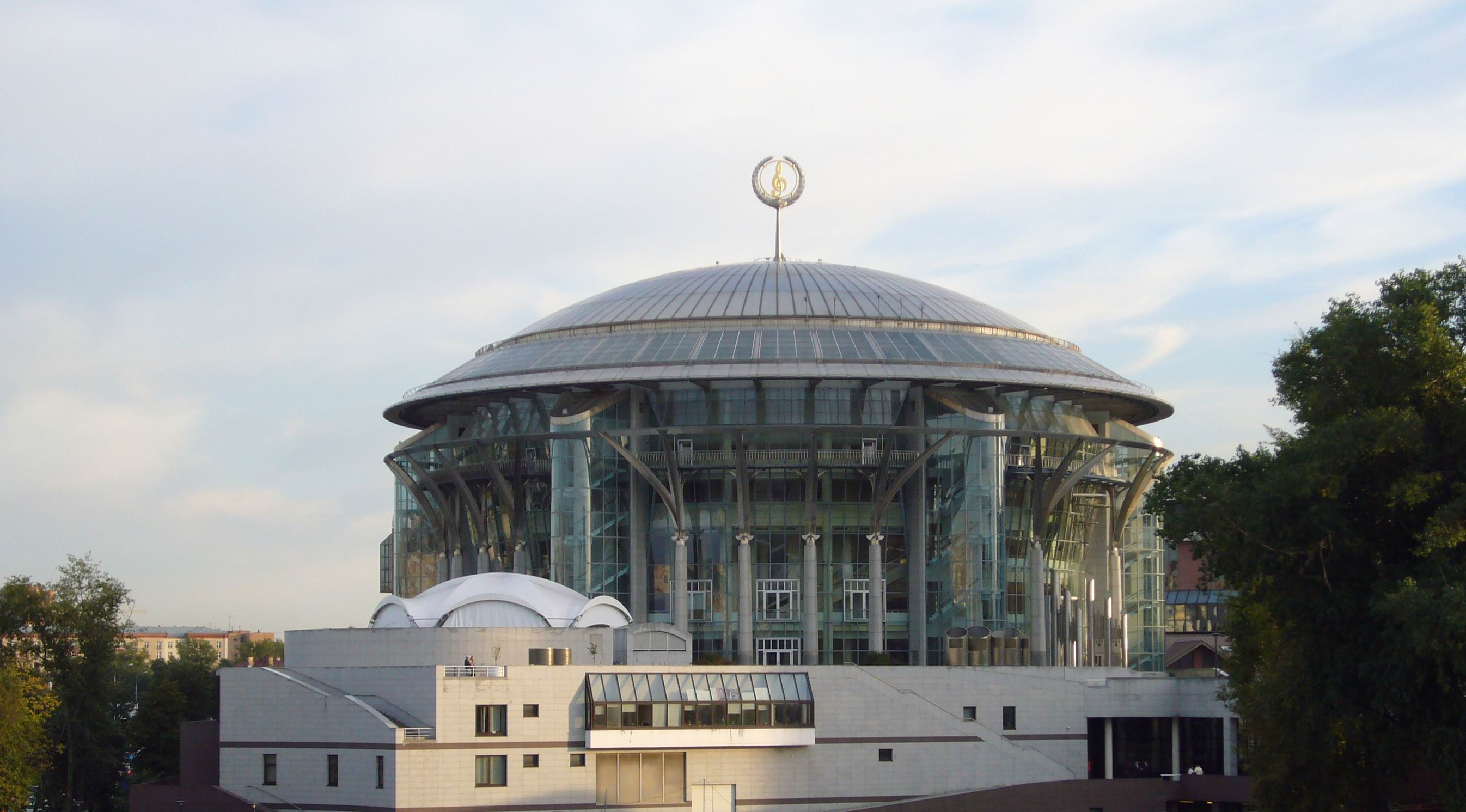 Krasnye Holmy, Music House